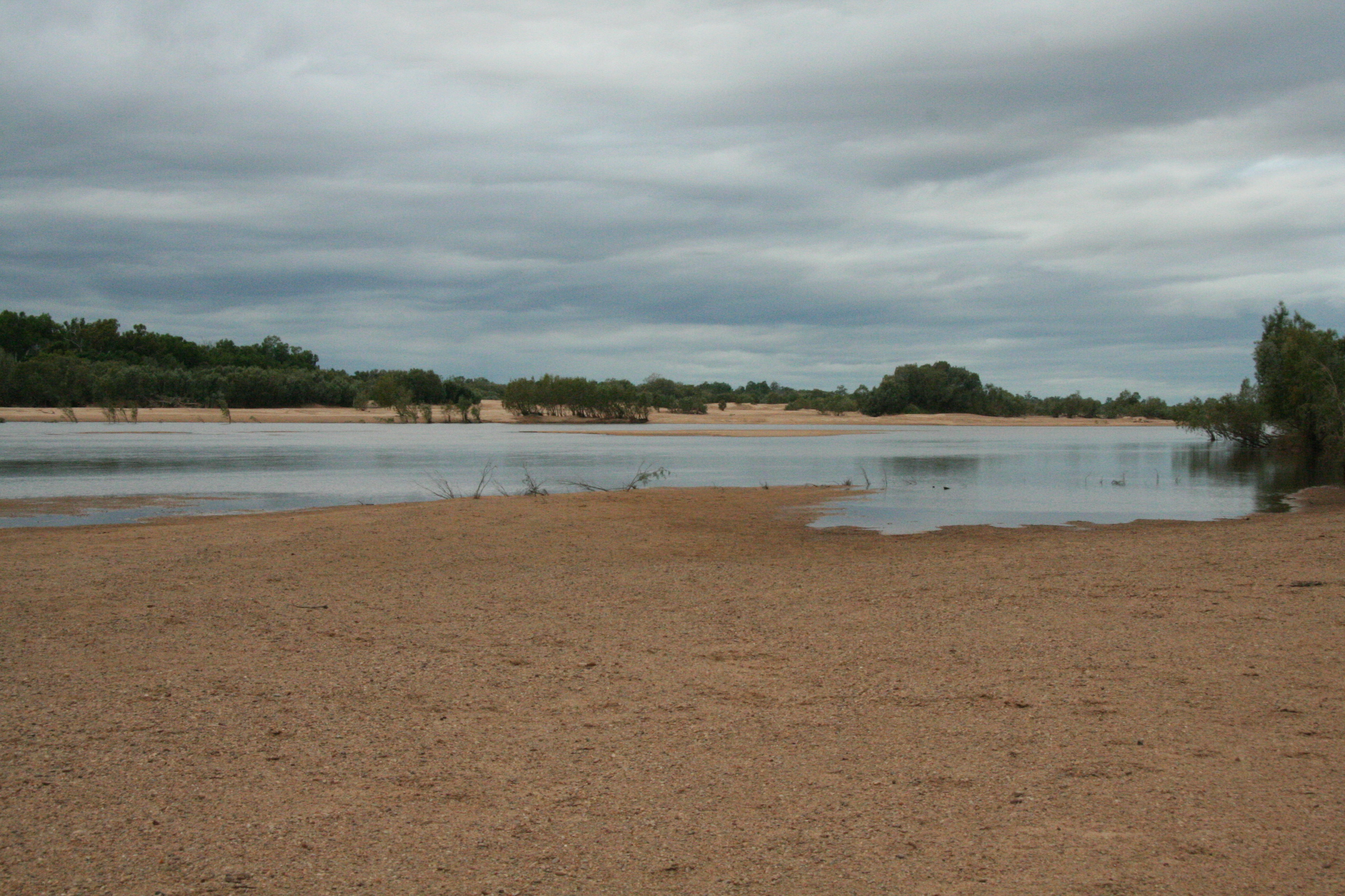 Mitchell River at Koolatah-Dunbar crossing during dry season, southwestern Cape York Peninsula, Australia.